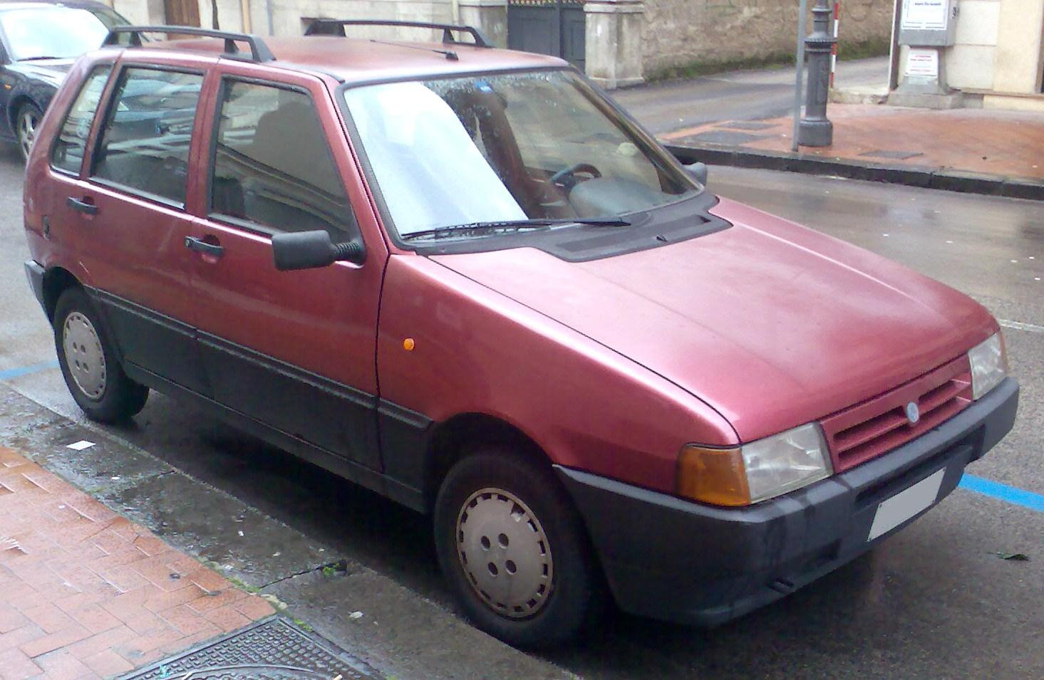 Innocenti Mille Clip